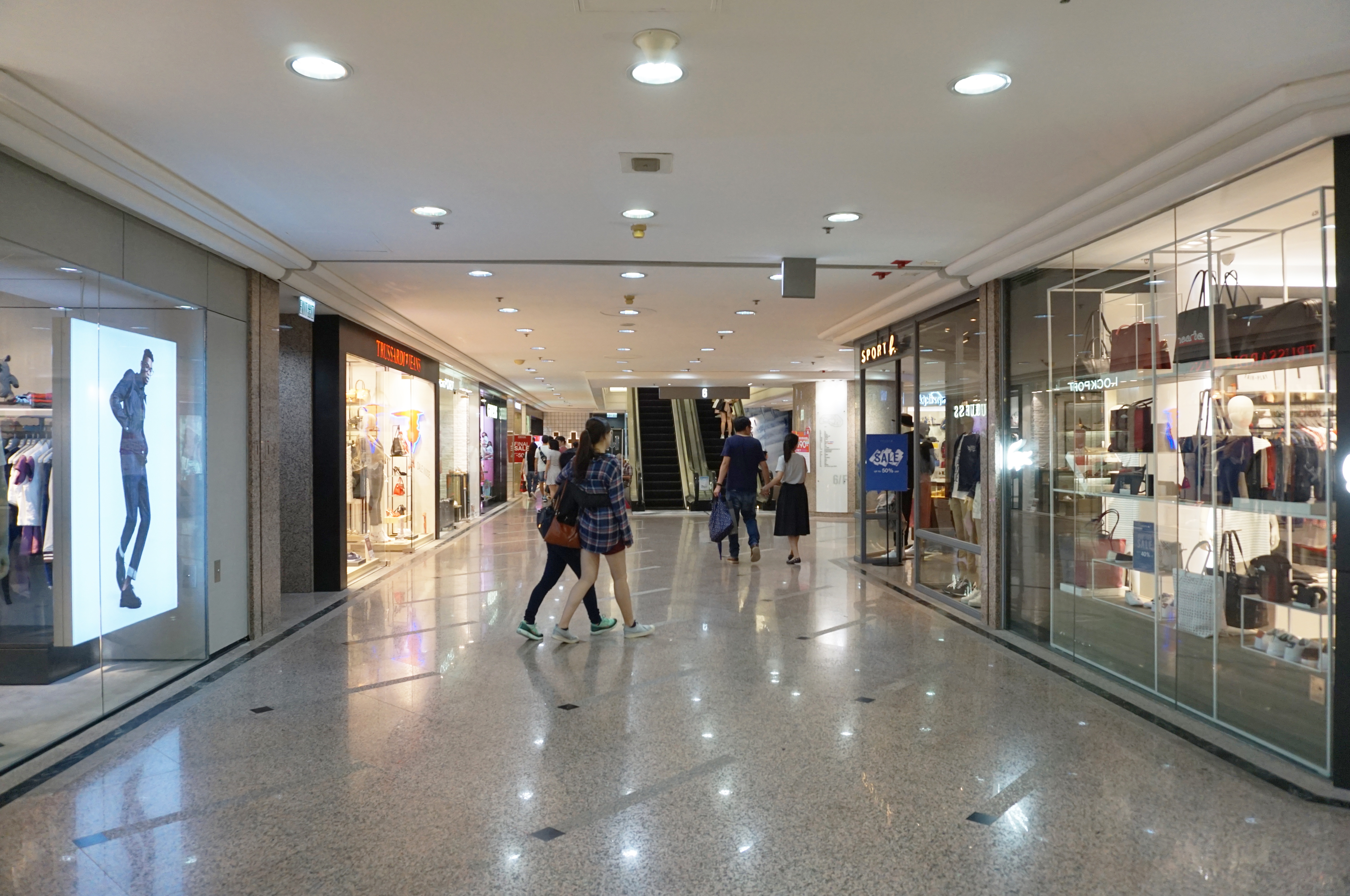 Times Square in Causeway Bay, Hong Kong.